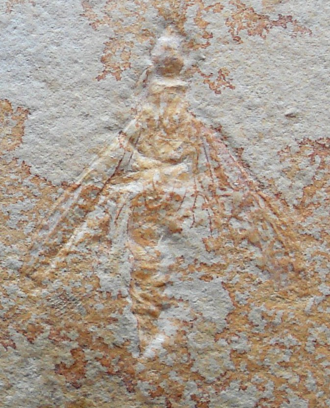 Fossil of Pseudosirex schroeteri from the Jurassic of Germany